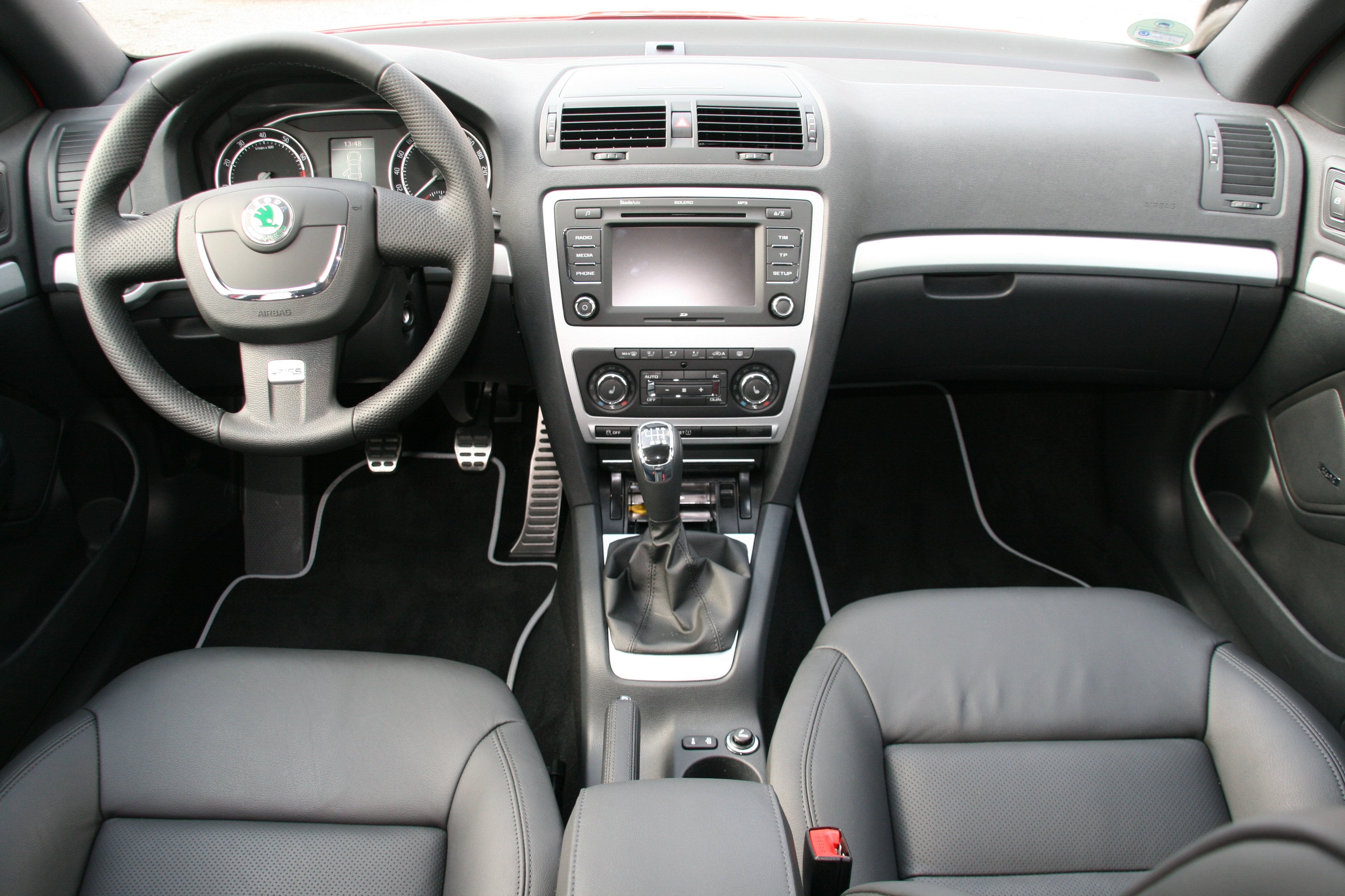 Skoda Octavia RS 2011 Inside